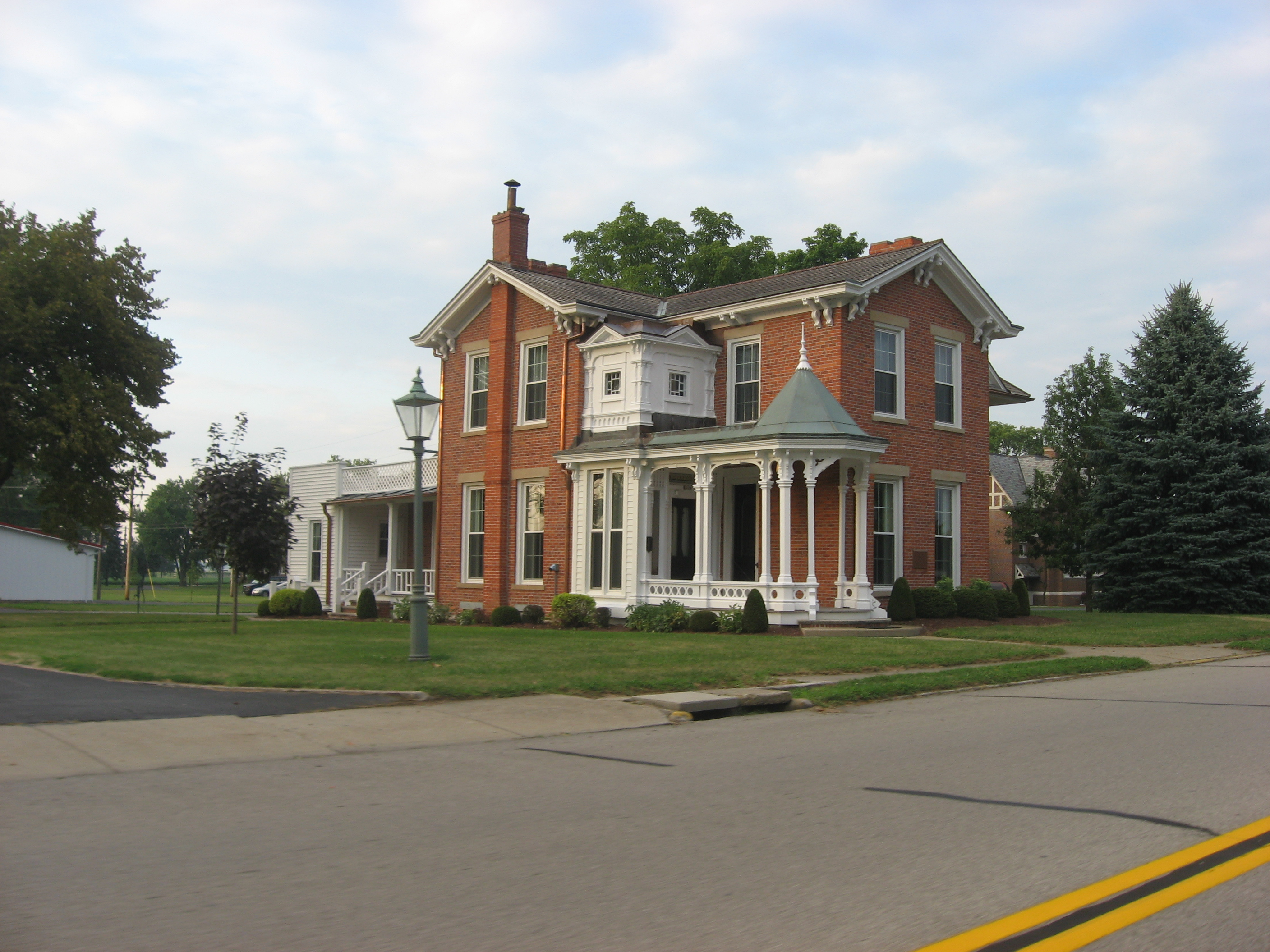 House at the George H. Marsh Homestead, located at 1229 Lincoln Highway on the east side of Van Wert, Ohio, United States. The homestead and associated school complex are listed on the National Register of Historic Places.